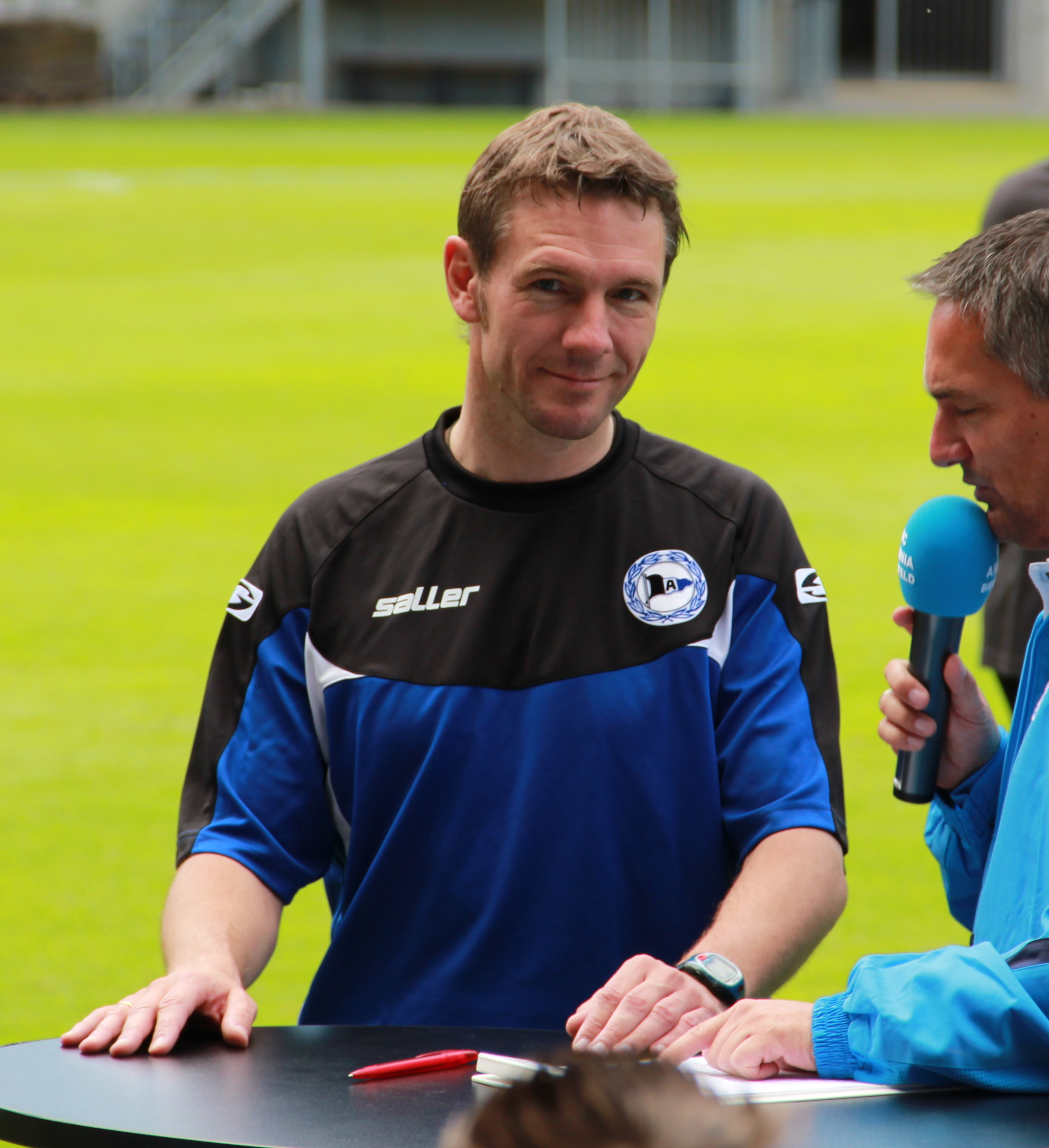 Markus von Ahlen, Coach of Arminia Bielefeld between April and Dezember 2011 on the frist public training of the season 2011/12 at the Bielefelder Alm. Interviewed by Thomas "Schmitti" Milse.